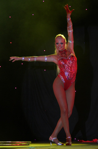 Miss Austria 2008 Kathrin Krafuss during her performance in the talent show of Miss World 2008